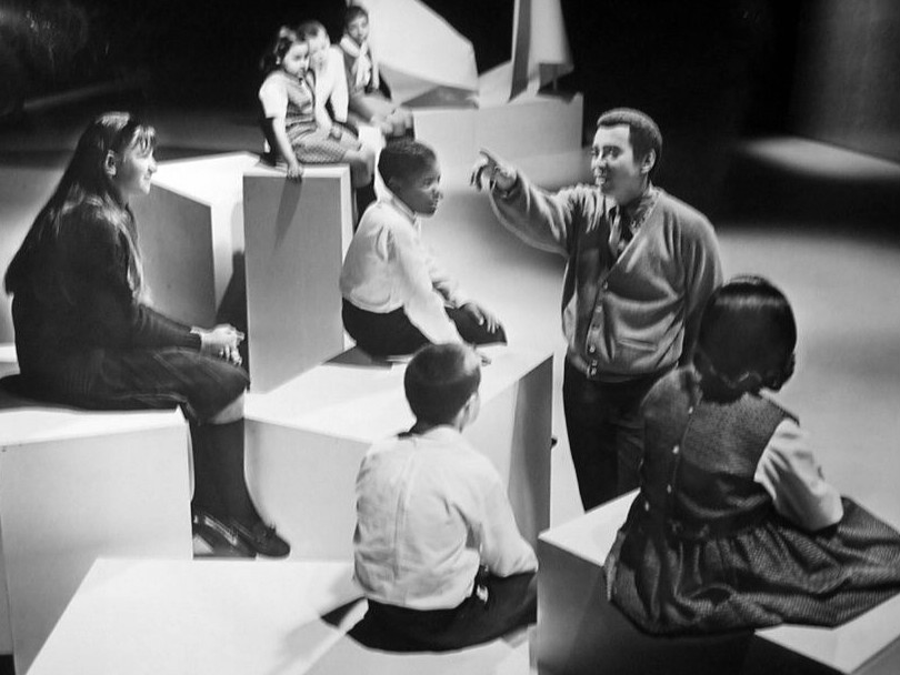 Publicity photo of Oscar Brown, Jr. performing on the CBS public affairs television show Look Up and Live.